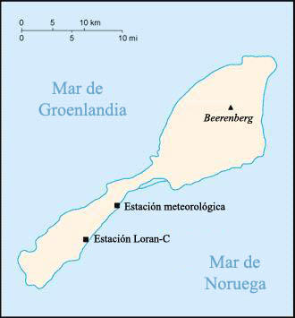 Blank map of Jan Mayen (Norway) - in Spanish